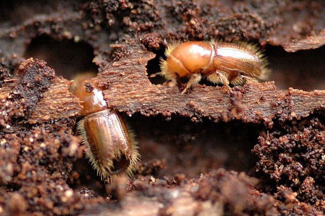 Picture taken in Commanster, Belgian High Ardennes . Species: Ips typographus